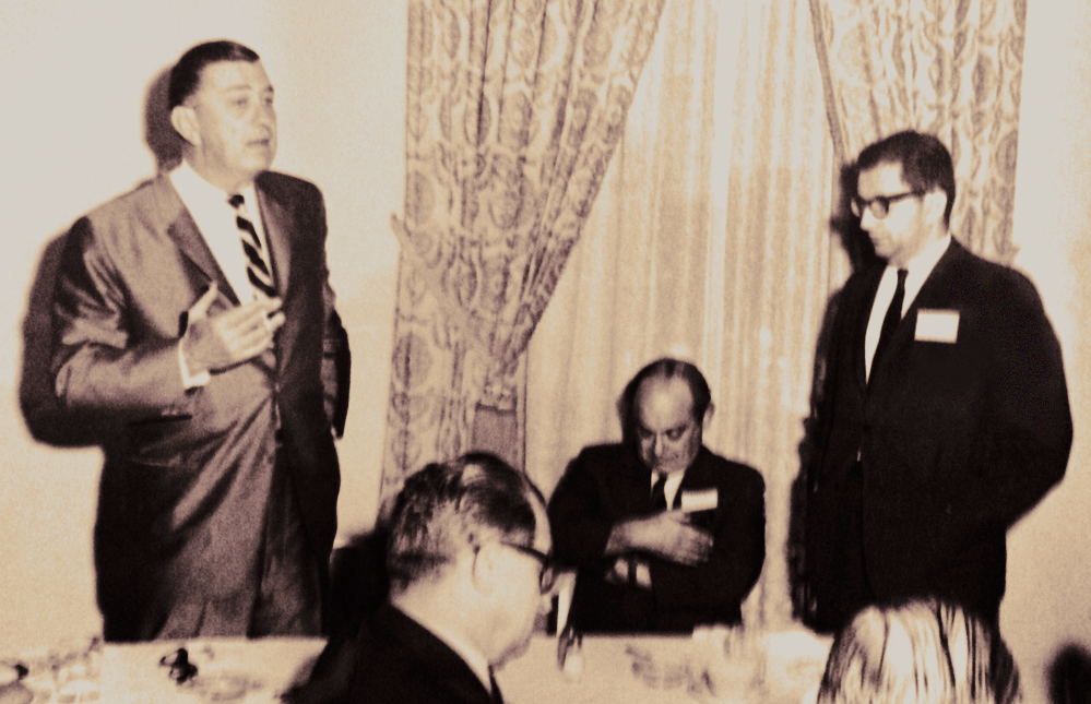 Campaign for Governor of New York 1966 Franklin Delano Roosevelt, Jr - James S. Vlasto